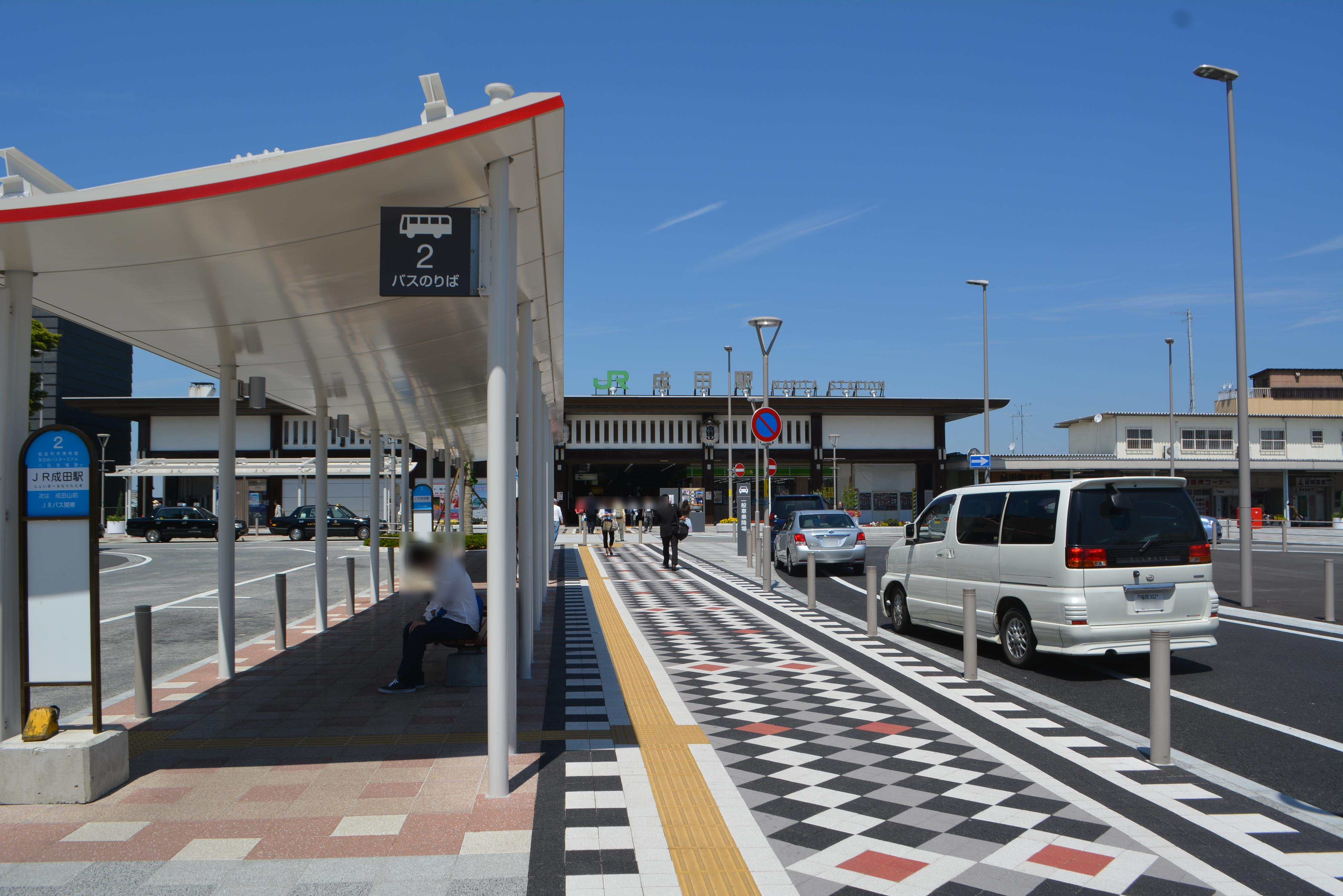 The bust stops and taxi ranks in front of JR Narita Station in Narita, Japan